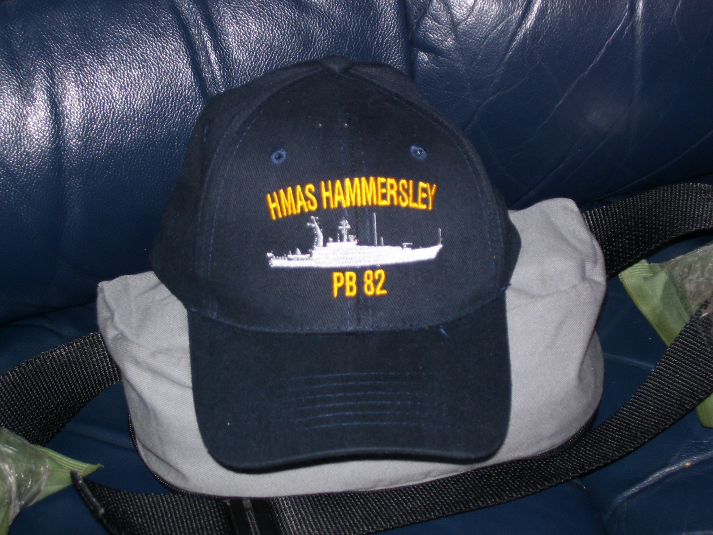 An Armidale class HMAS Hammersley cap from the Australian TV series Sea Patrol